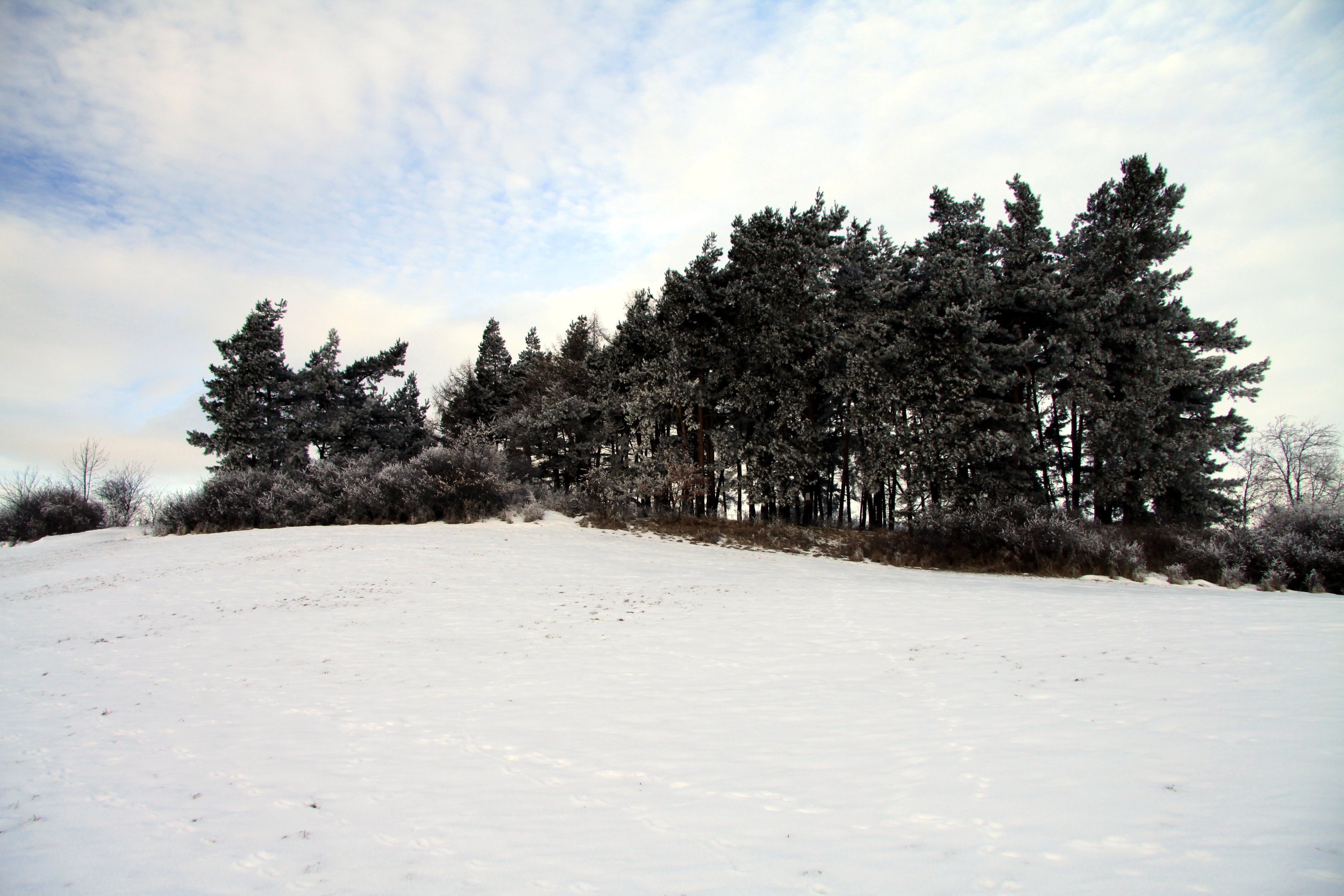 Natural monument Na opukách in Strakonice District, Czech Republic - Google Maps - Google Earth